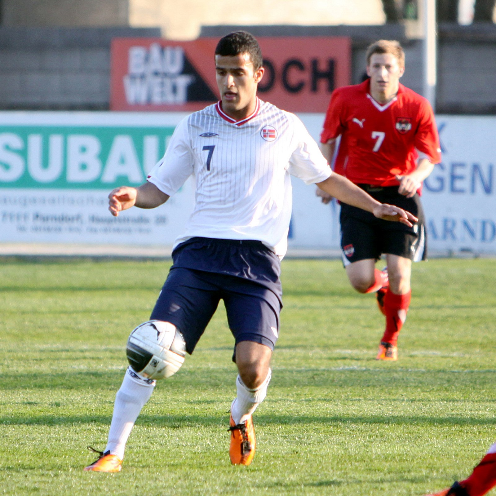 Harmeet Singh (Vålerenga Oslo) in the Norway national under-21 football team, 2011-03-29